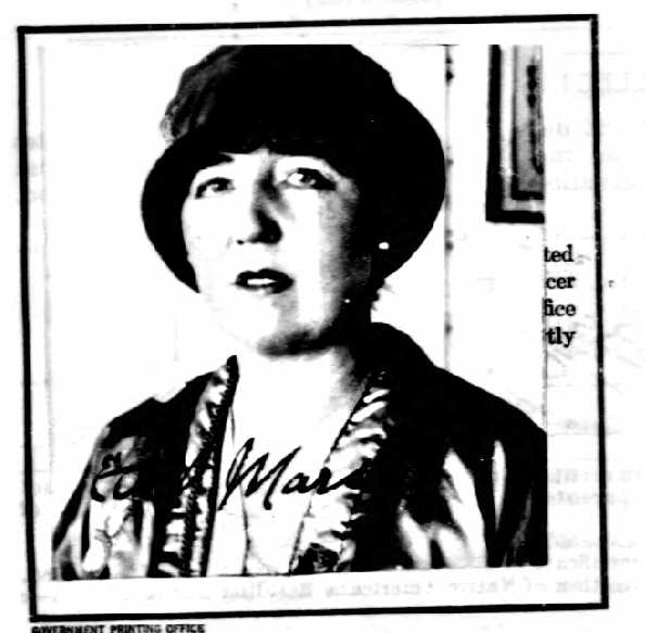 Ethel Mars, 1924 (passport photo)